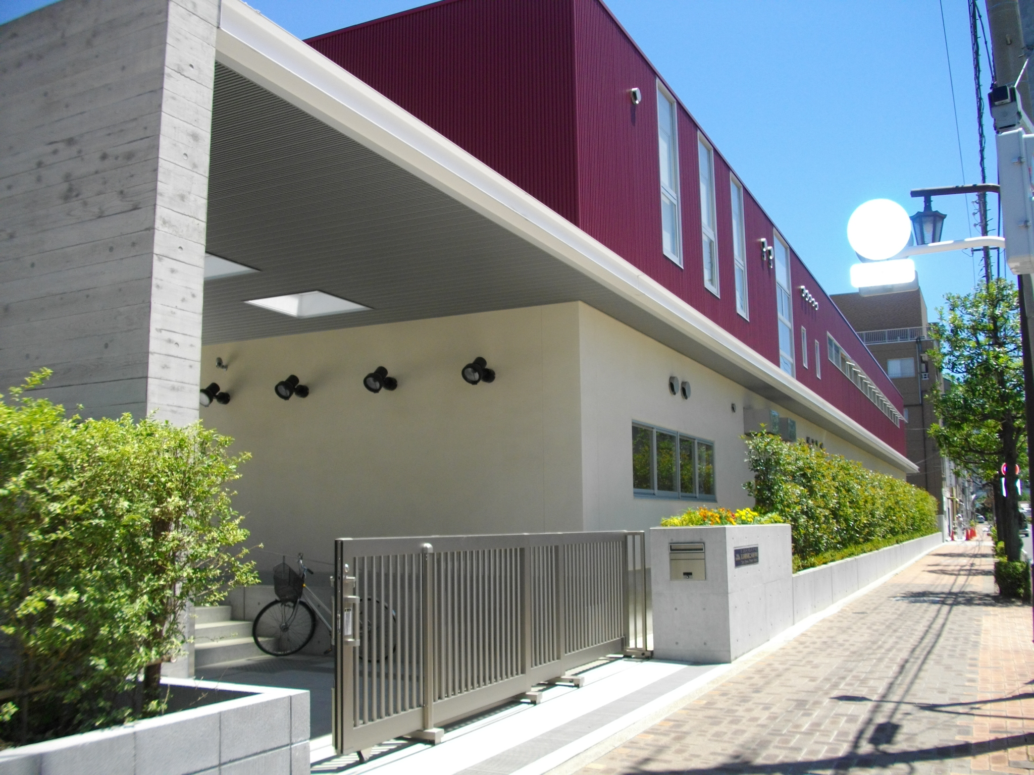 Tokyo Korean 2nd Elementary School